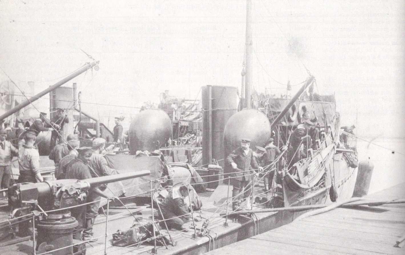 Close-up of British destroyer HMS Bittern alongside a pier